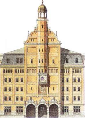 Vilhelm Dahlerup rendering for the Silopakhus warehouse at Midtermolen in the Freeport of Copenhagen